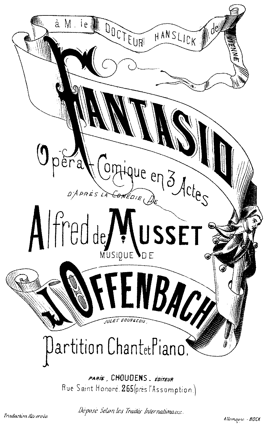 Jacques Offenbach - Fantasio - title page of the piano score